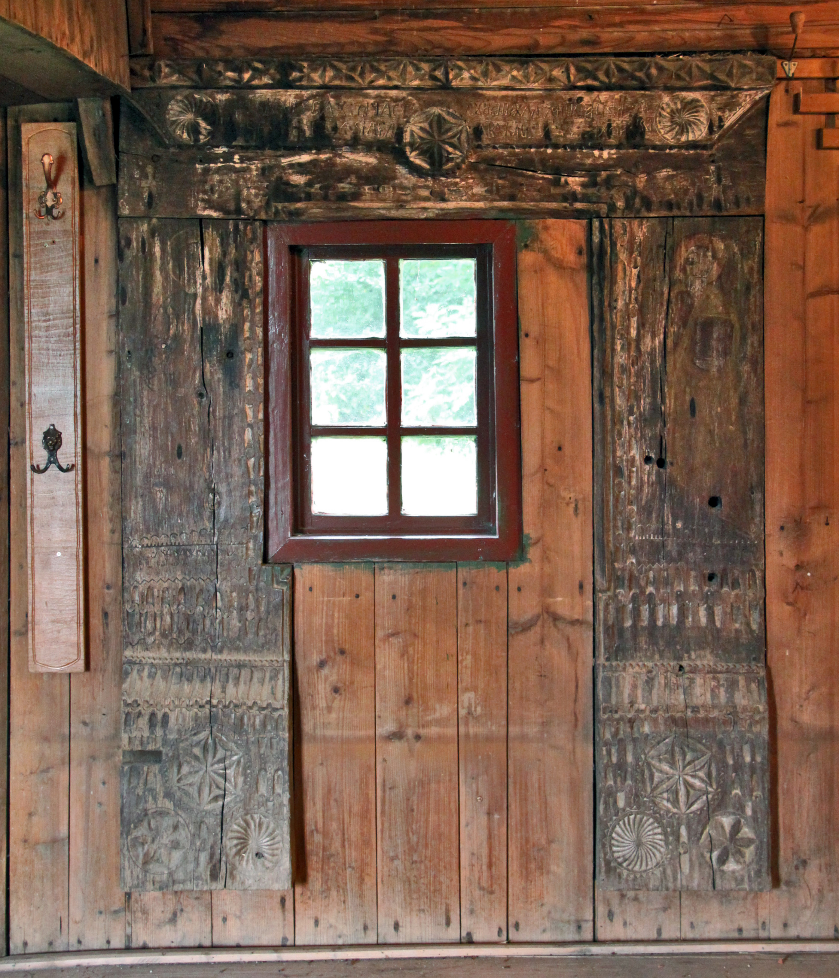 Bacea, Hunedoara county, Romania: the wooden church, the portal from the entrance removed inside the nave.